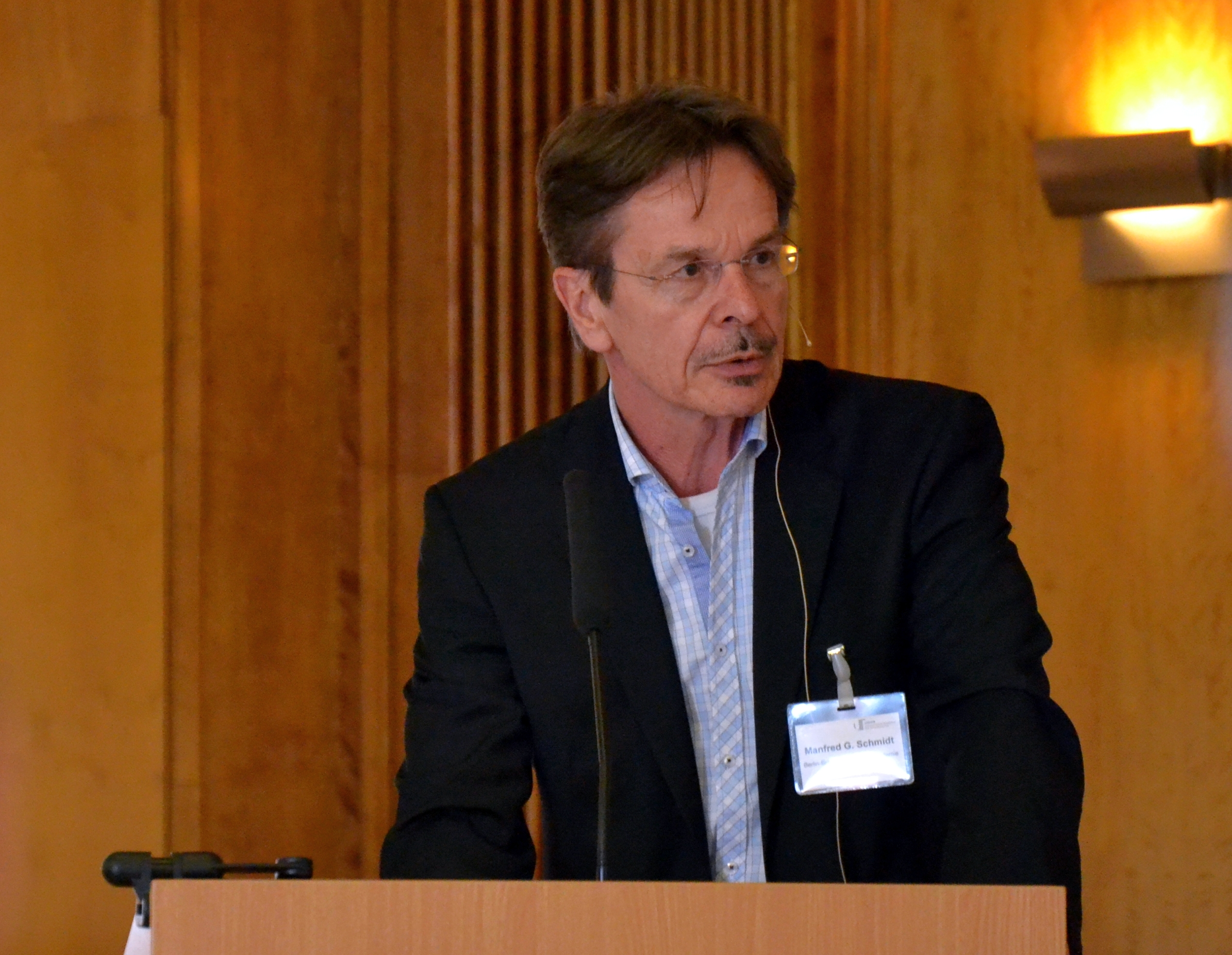 Academies day 2015 at the Berlin-Brandenburg Academy of Science in Berlin; Theme: "Old world today: Perspectives and threats". Image: Epigraphican Manfred G. Schmidt, head of the Corpus Inscriptionum Latinarum.